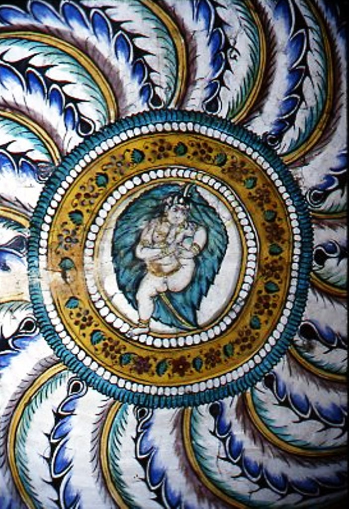 Bala Krishna, Kamchipuram, India